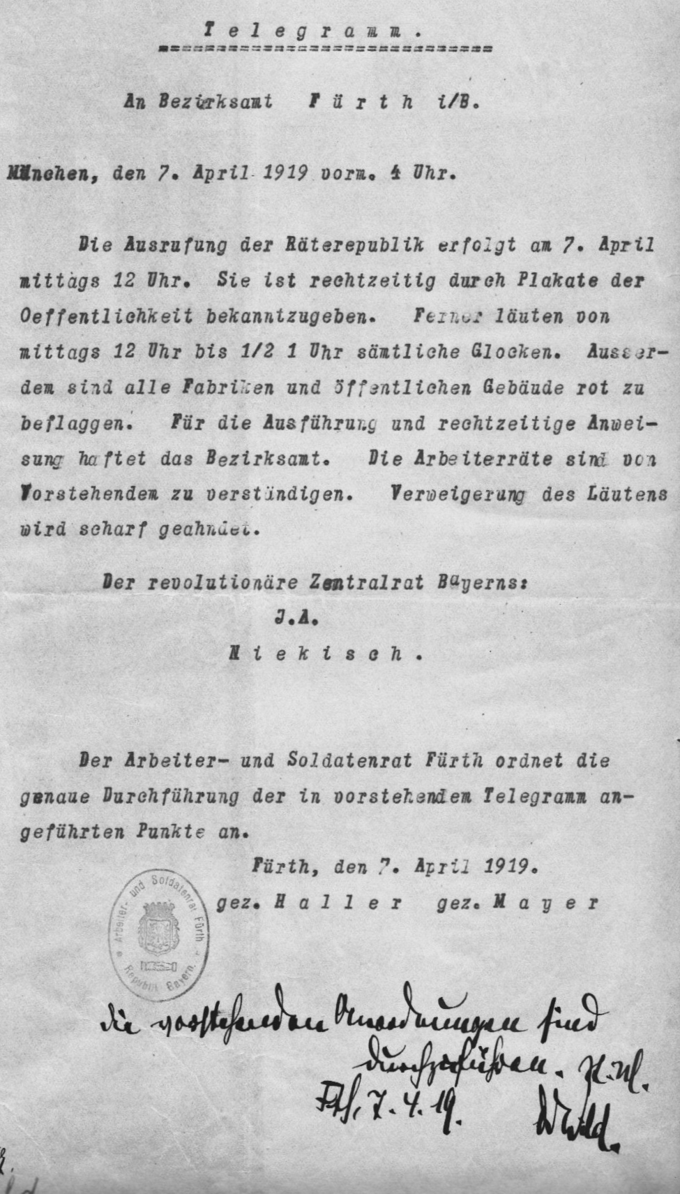 Telegramm from the leadership of Bavarian Soviet Republic to the city of Fürth